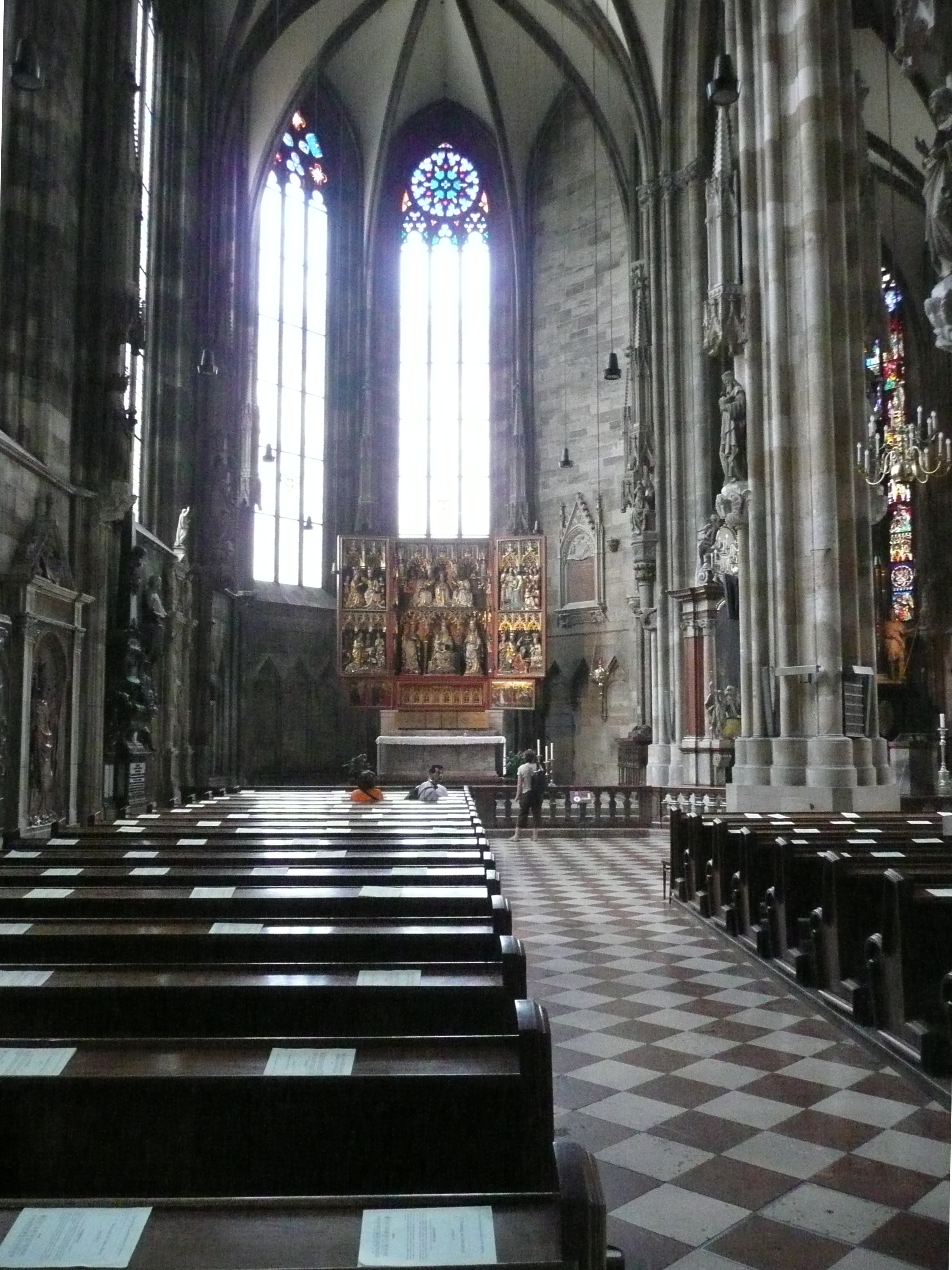 The Wiener Neustaedter Altar in St. Stephen's Cathedral, Vienna.